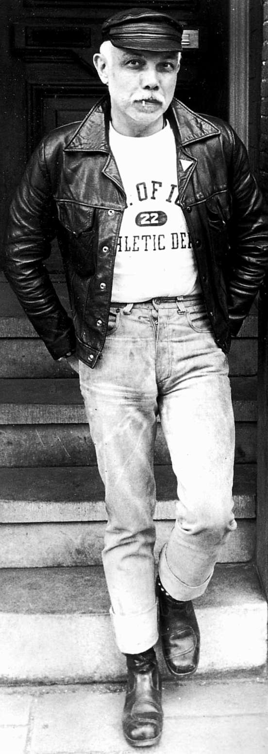 James Stratton Holmes (May 2, 1924 - Amsterdam, November 6, 1986,) poet & literary translator.